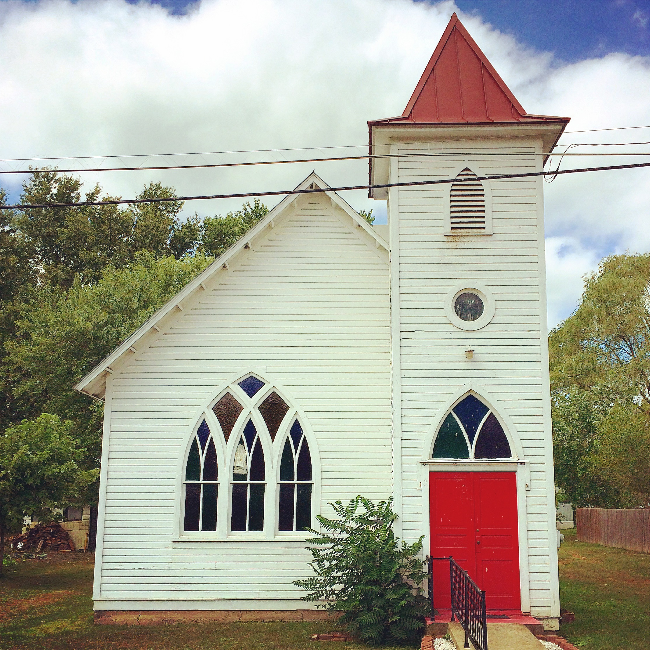 Otterbein United Methodist Church (1890) is a late 19th-century United Methodist church on Norton Street in the unincorporated community of Green Spring in Hampshire County, West Virginia, United States. Photographed by Quercus montana